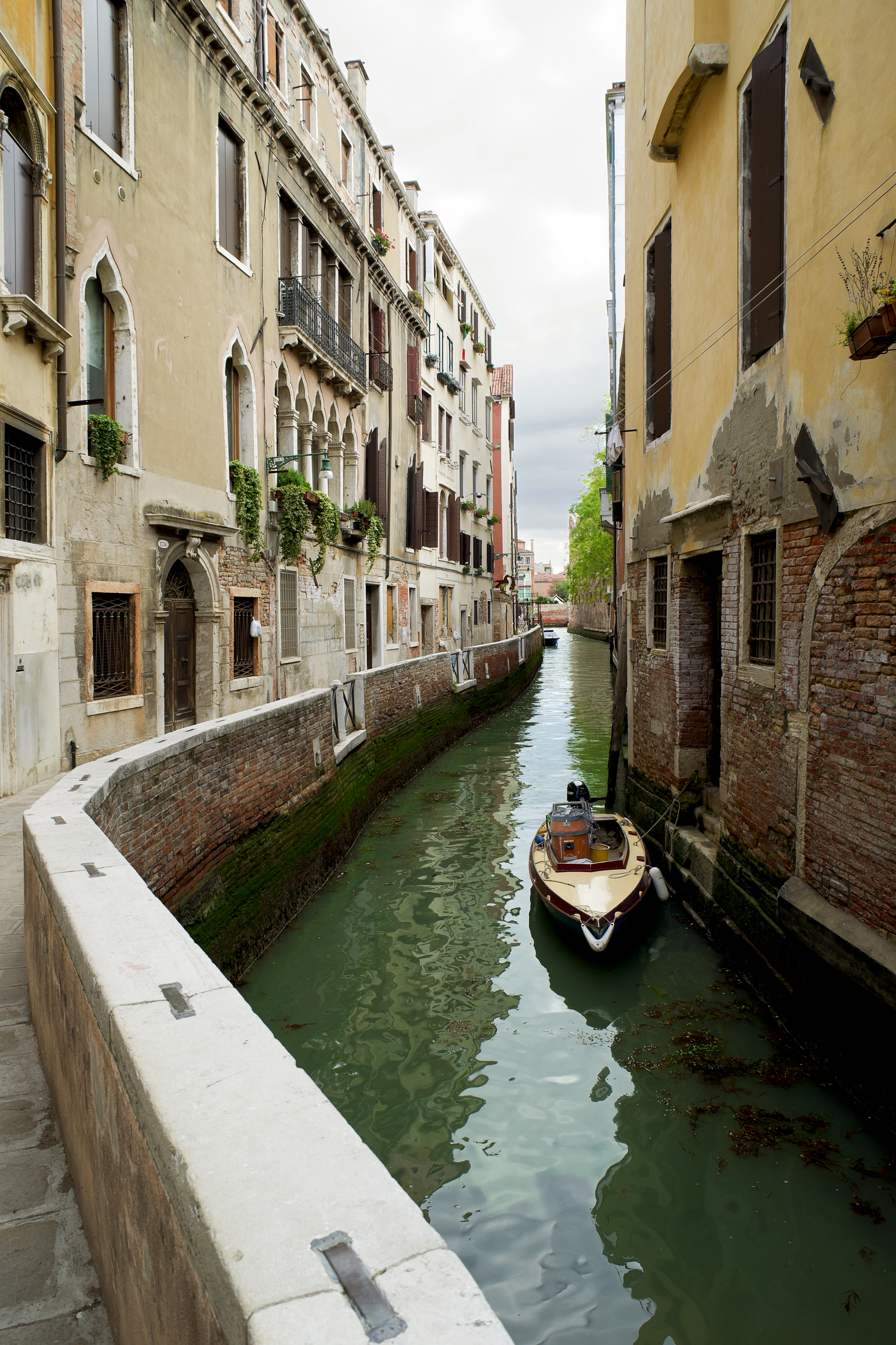 Rio Fontego dei Turchi o del Megio, Venice